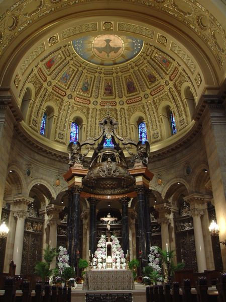 Saint Paul's Cathedral, Saint Paul, Minnesota